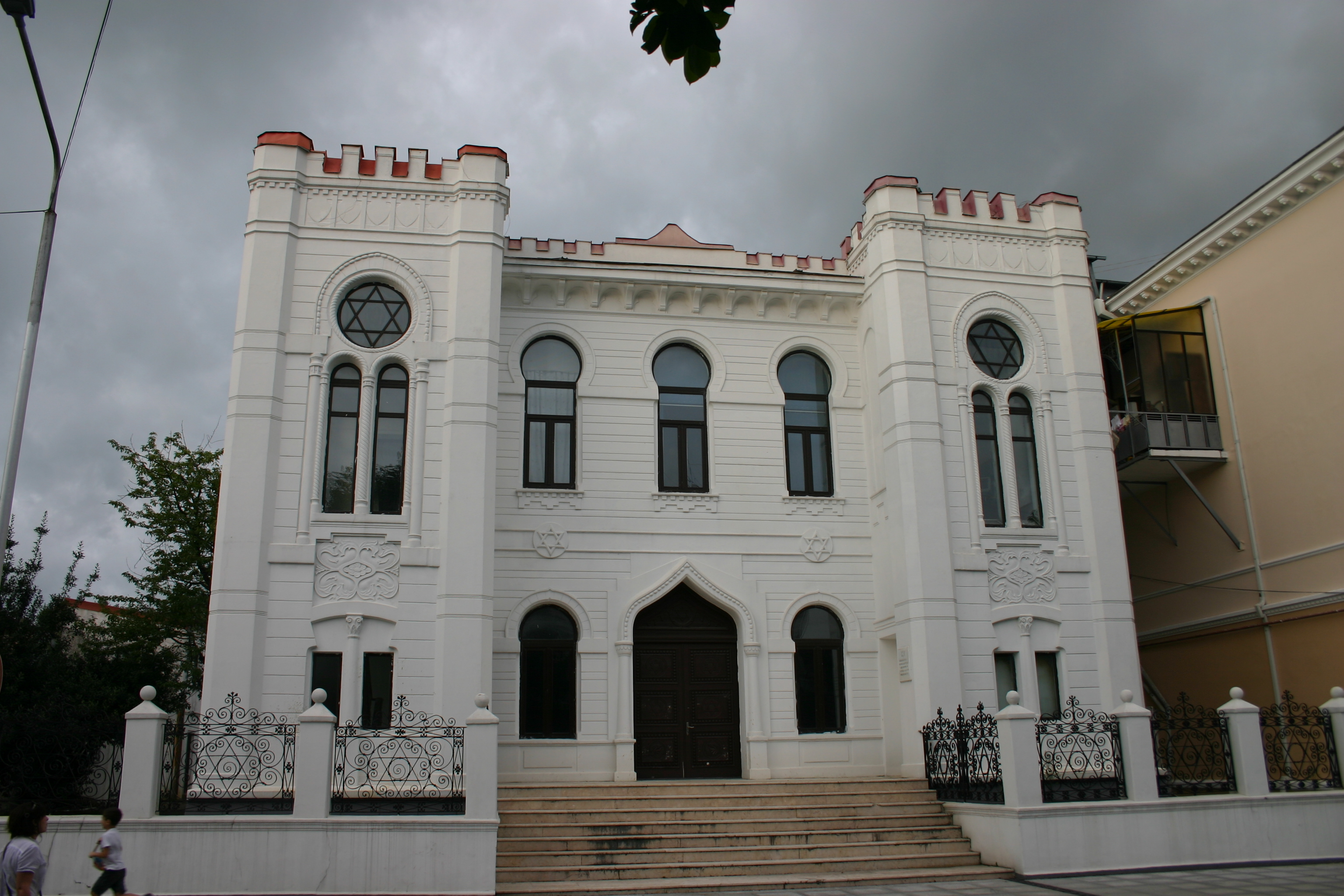 synagogue in Batumi